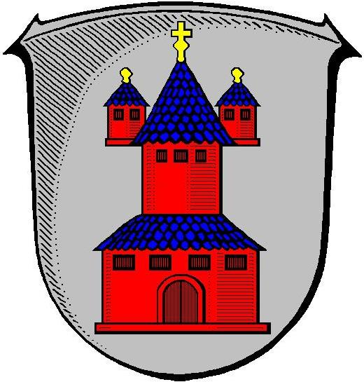 Coat of Arms of Niddatal